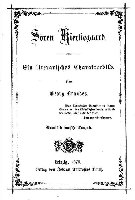 Sören Kierkegaard: Ein literarisches Charakterbild (German) Soren Kierkegaard by George Brandes 1879 German edition Soren Kierkegaard